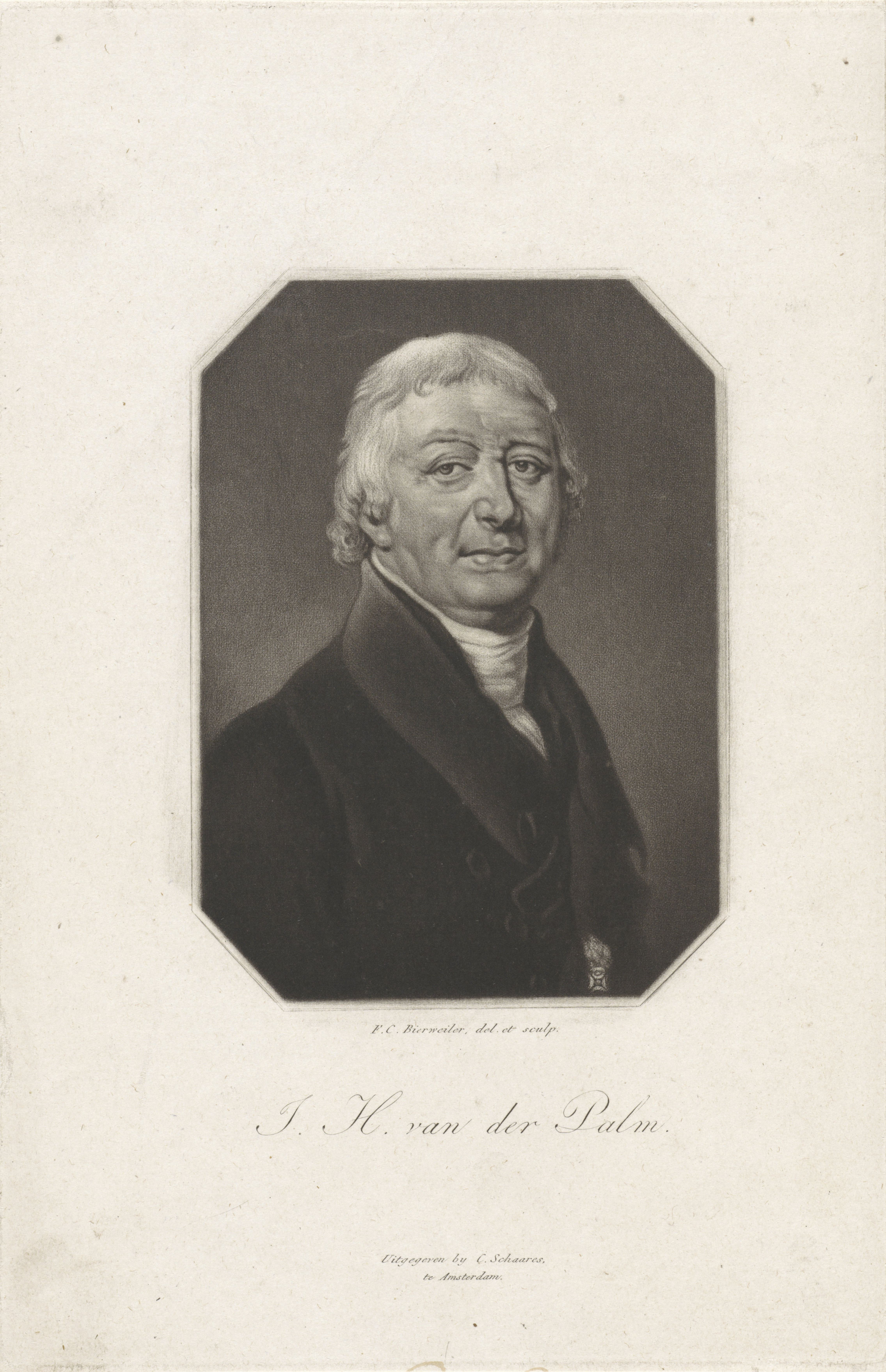 Johannes Hendricus van der Palm, preacher, theologian and professor of oriental languages ​​in Leiden. A knighthood on the lapel.